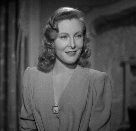 Italian actress Caterina Boratto in a scene of the film Campo de' fiori